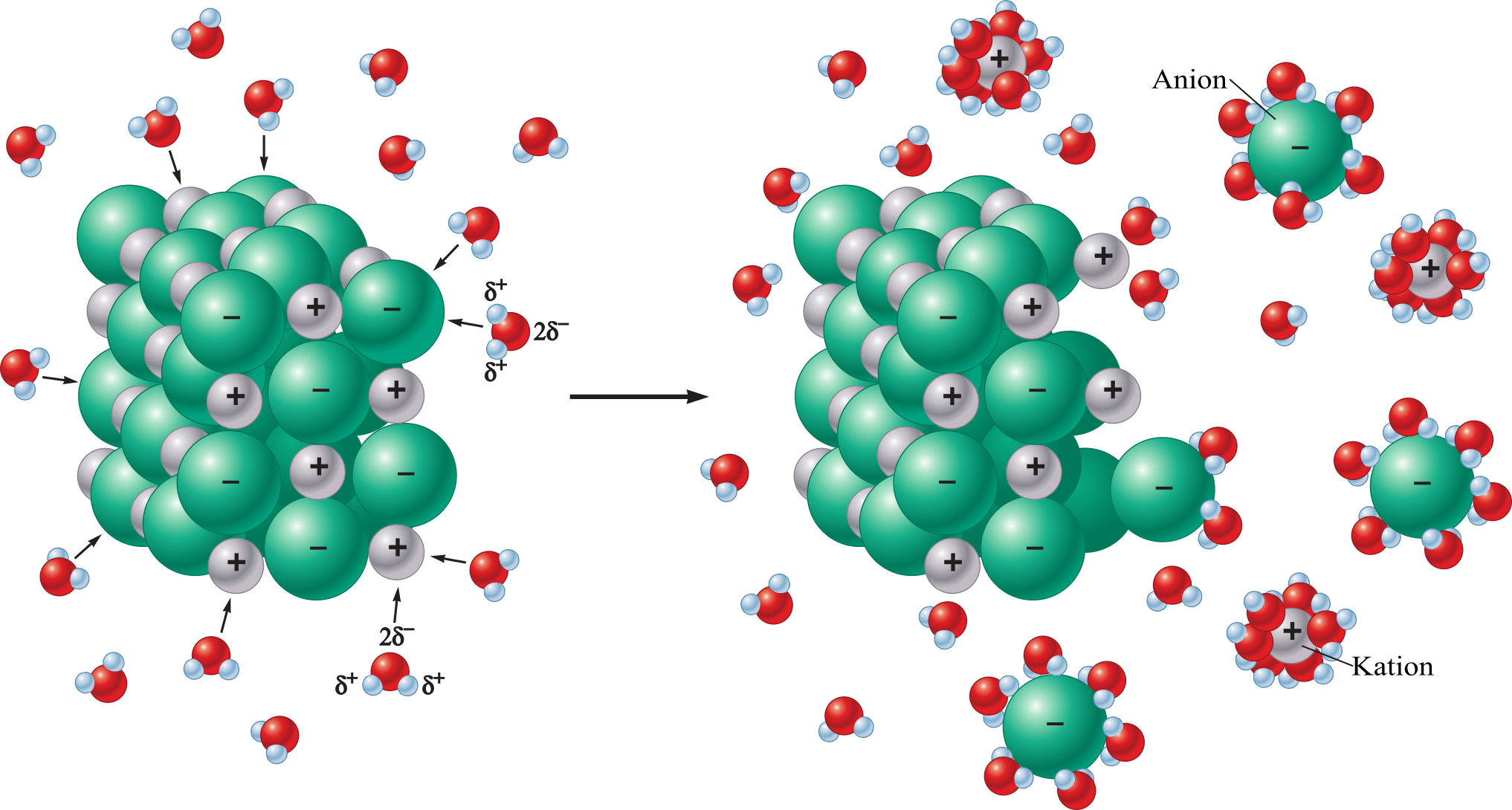 Illustration showing the course of the electrolytic dissociation of ionic salts in the water.